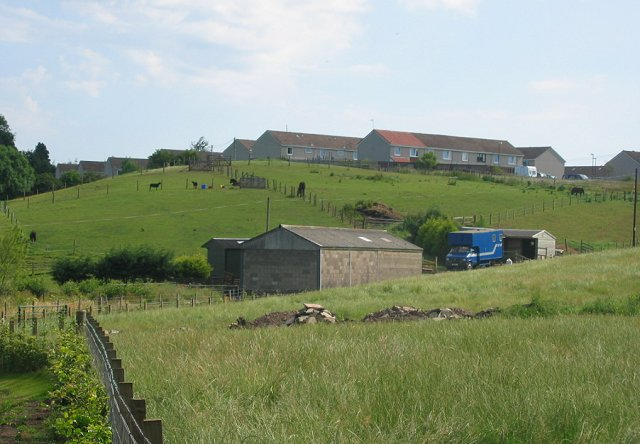 Urban fringe "agriculture" The newer parts of Bonnyrigg expand into the Midlothian countryside. As is common near big cities, a lot of farmland, and much of this square, is now used for livery stables.